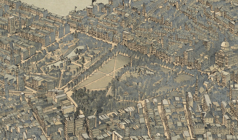 Beacon Common and vicinity. Detail of 1899 map of Boston by A.E. Downs.